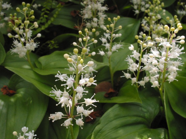 Maianthemum bifolium, Jardin alpin, Jardin des Plantes de Paris